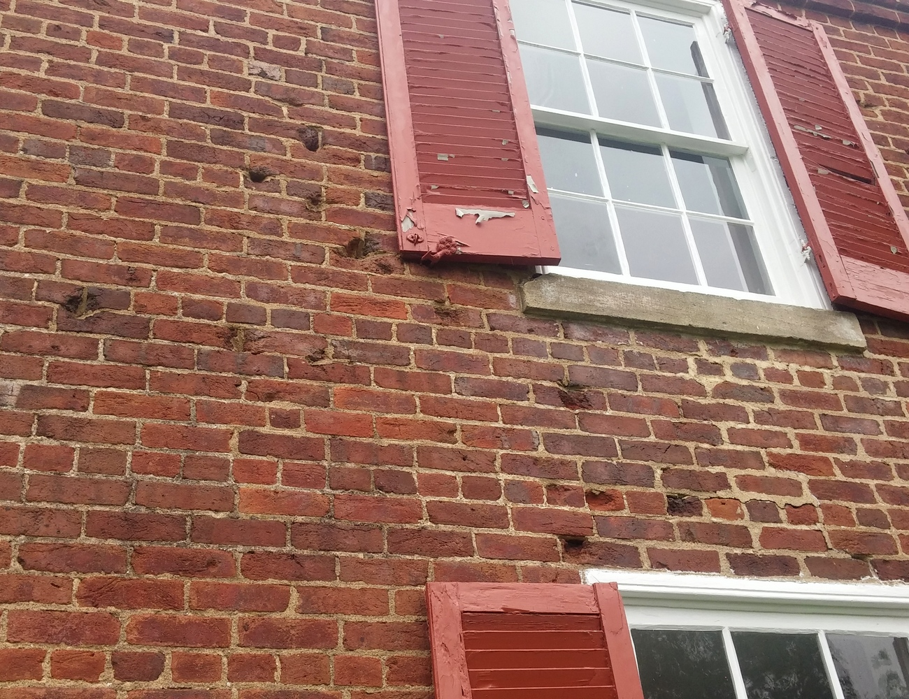 Salem Church and bullet holes